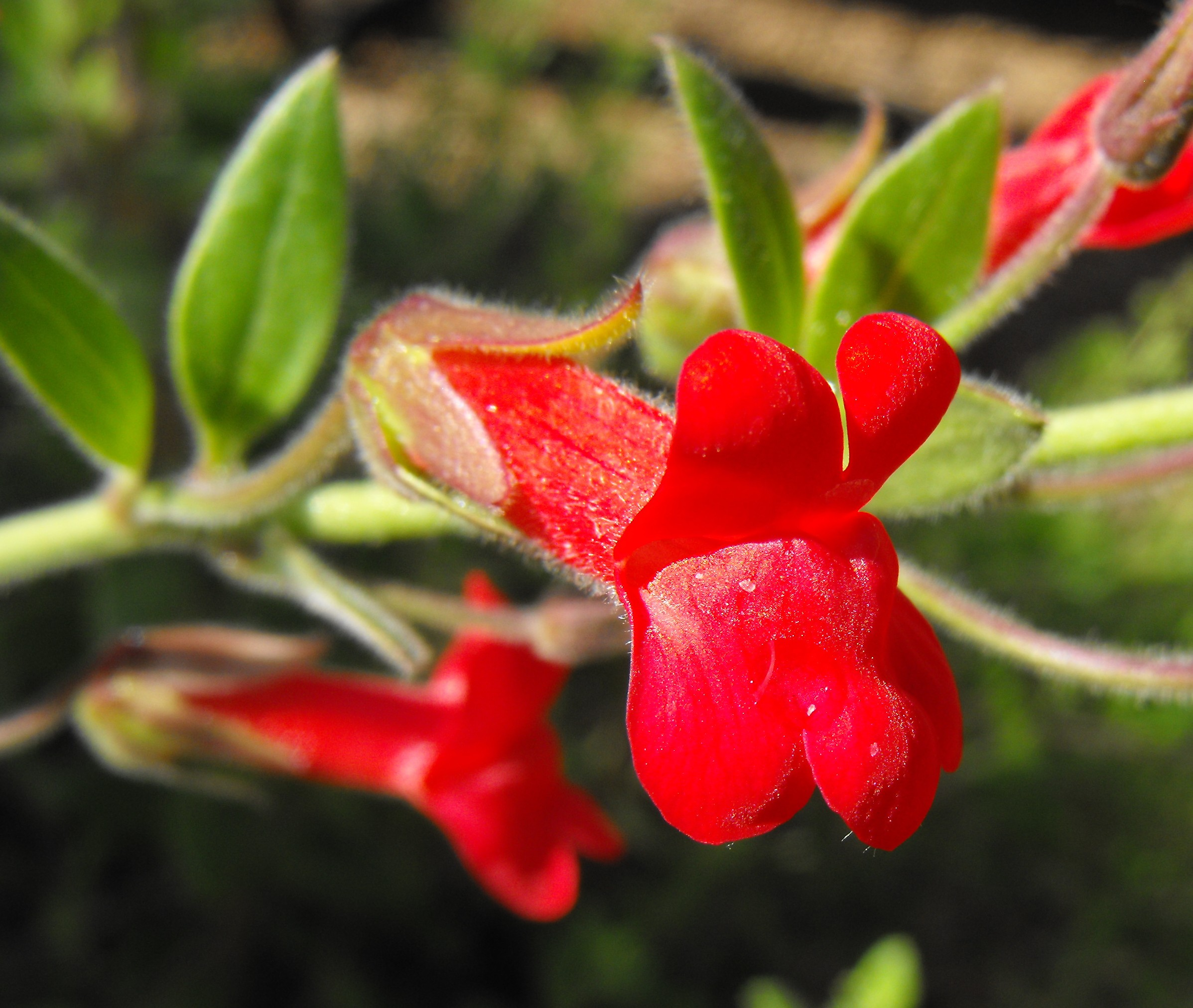 Galvezia speciosa 'Firecracker' — native to the coastal California chaparral and woodlands. In The Water Conservation Garden At Cuyamaca College, located in El Cajon, southern California. Identified by sign.